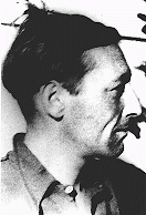 German painter, Franz Monjau (1903-1945)